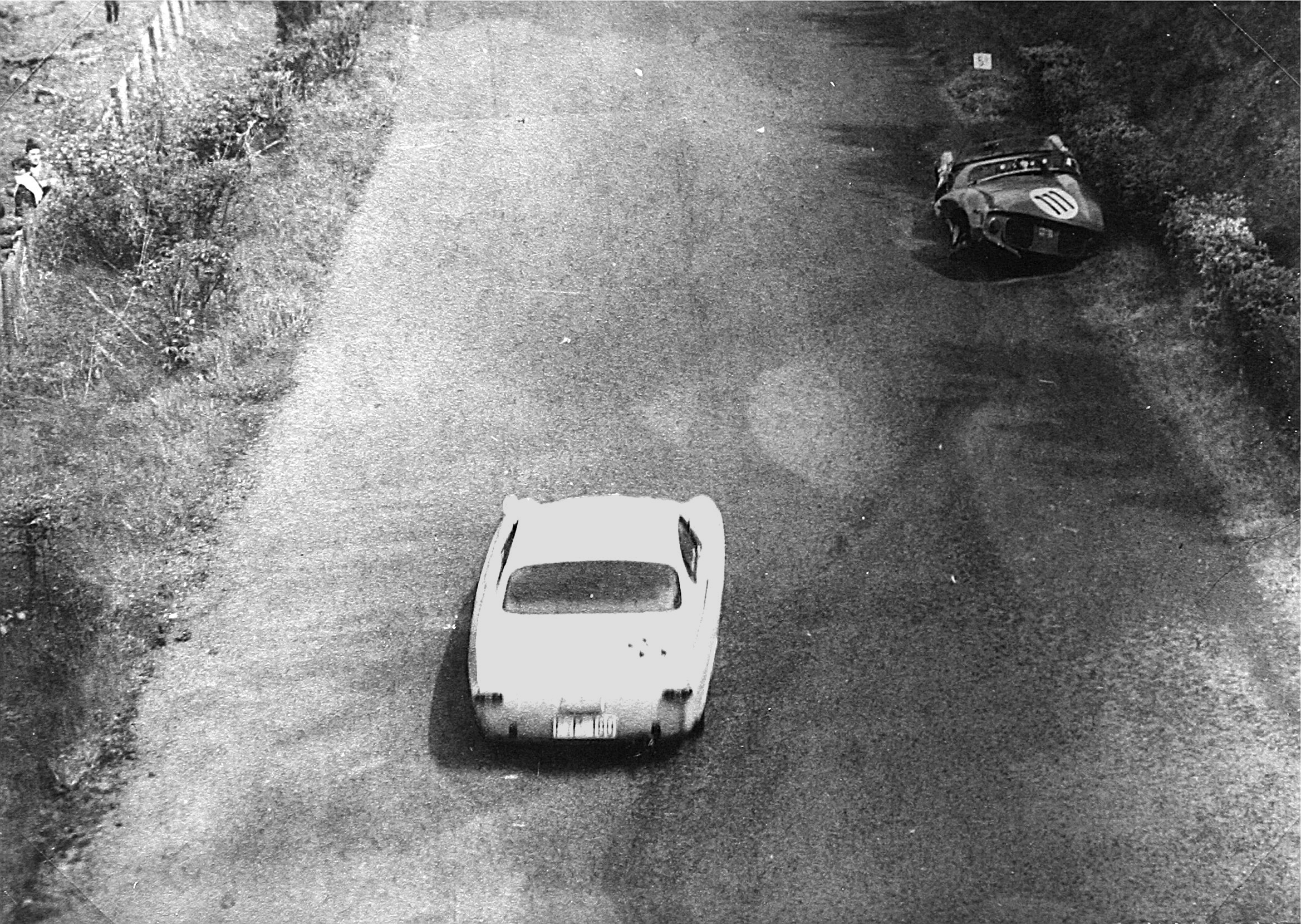 Ferrari 250 P of Mike Parkes after the accident with Mairesse.